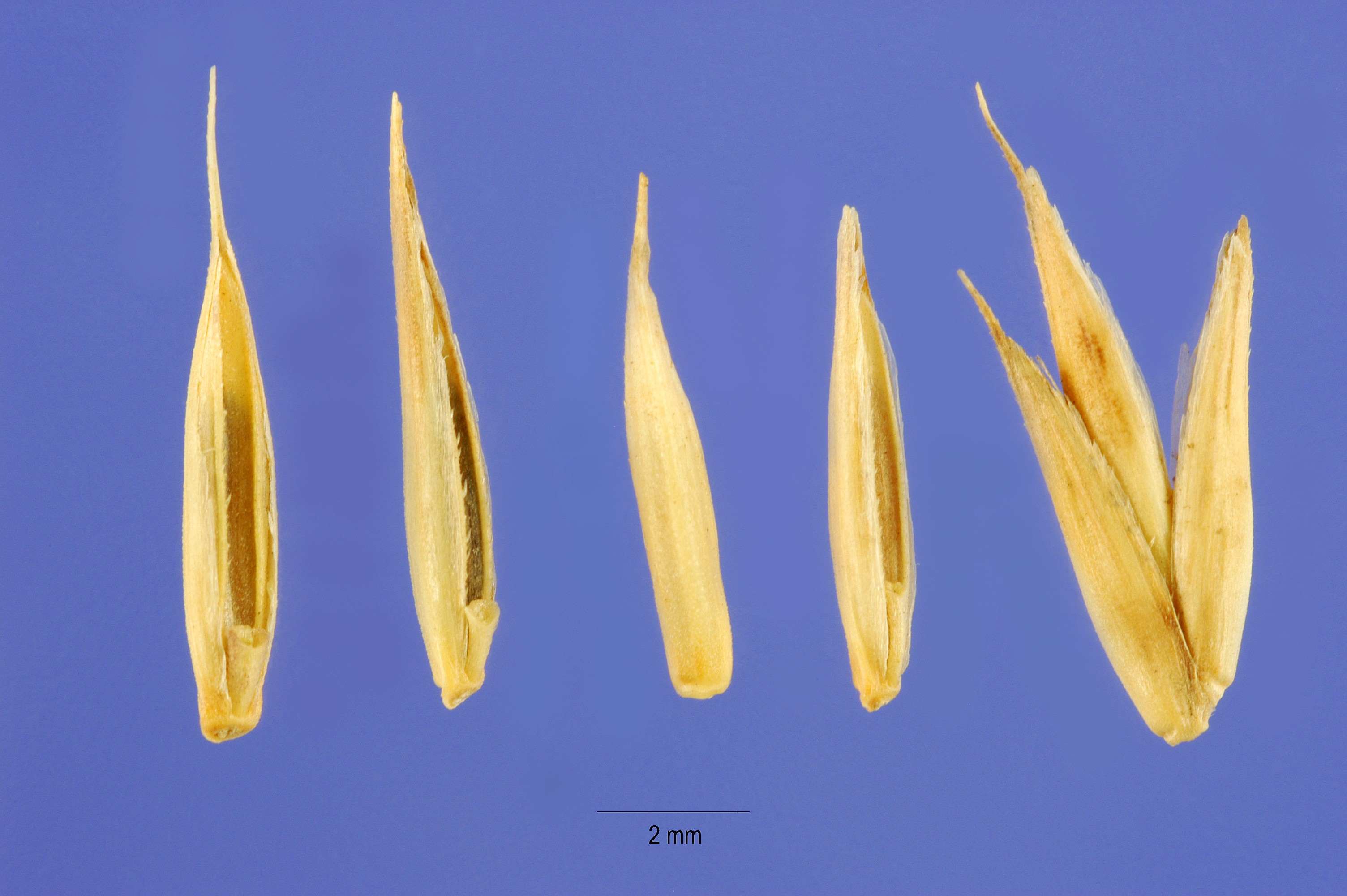 Desert Wheatgrass. Seeds from Leningrad, Russia.